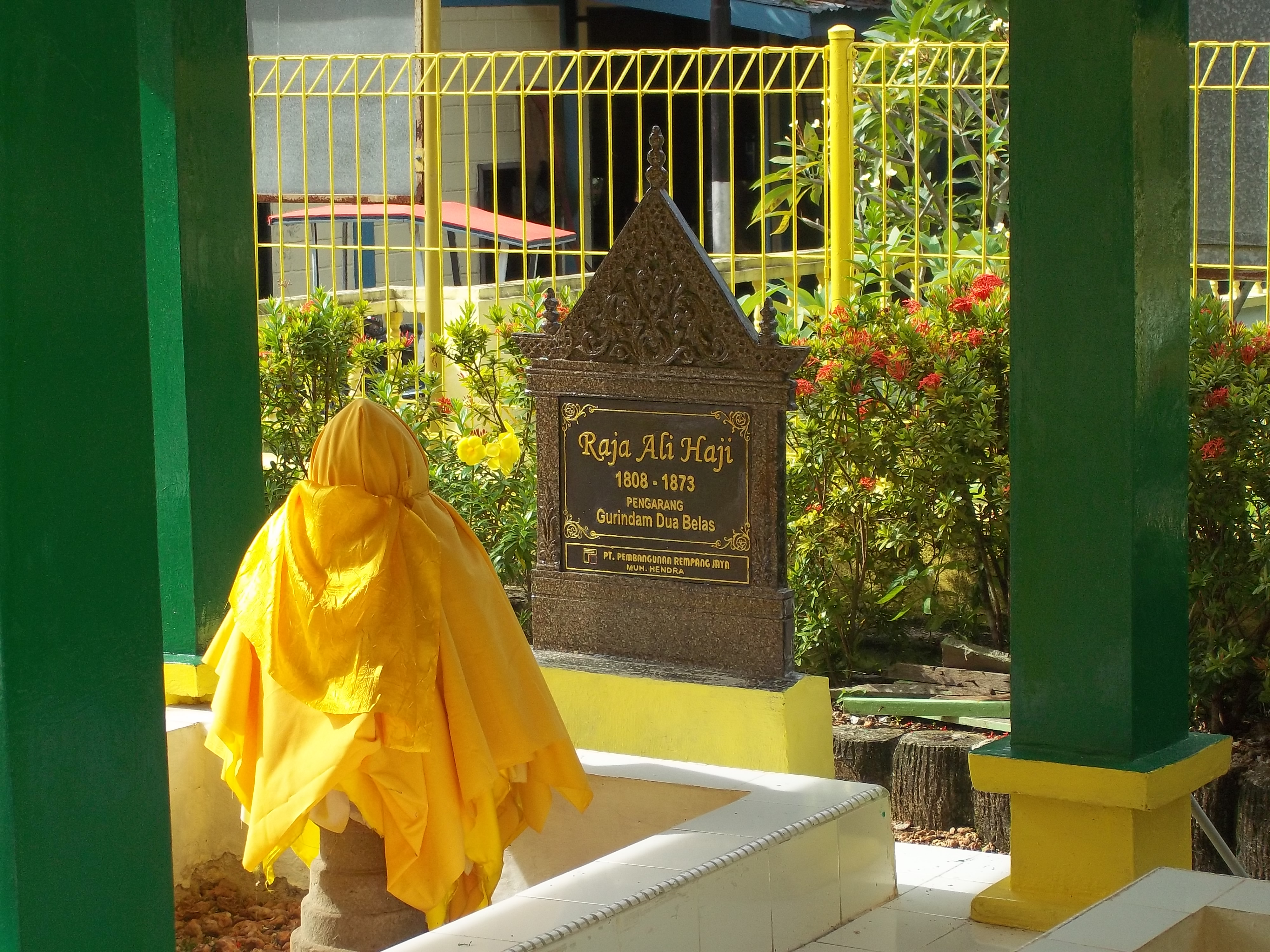 The Tomb of Raja Ali Haji, The Royal Poet